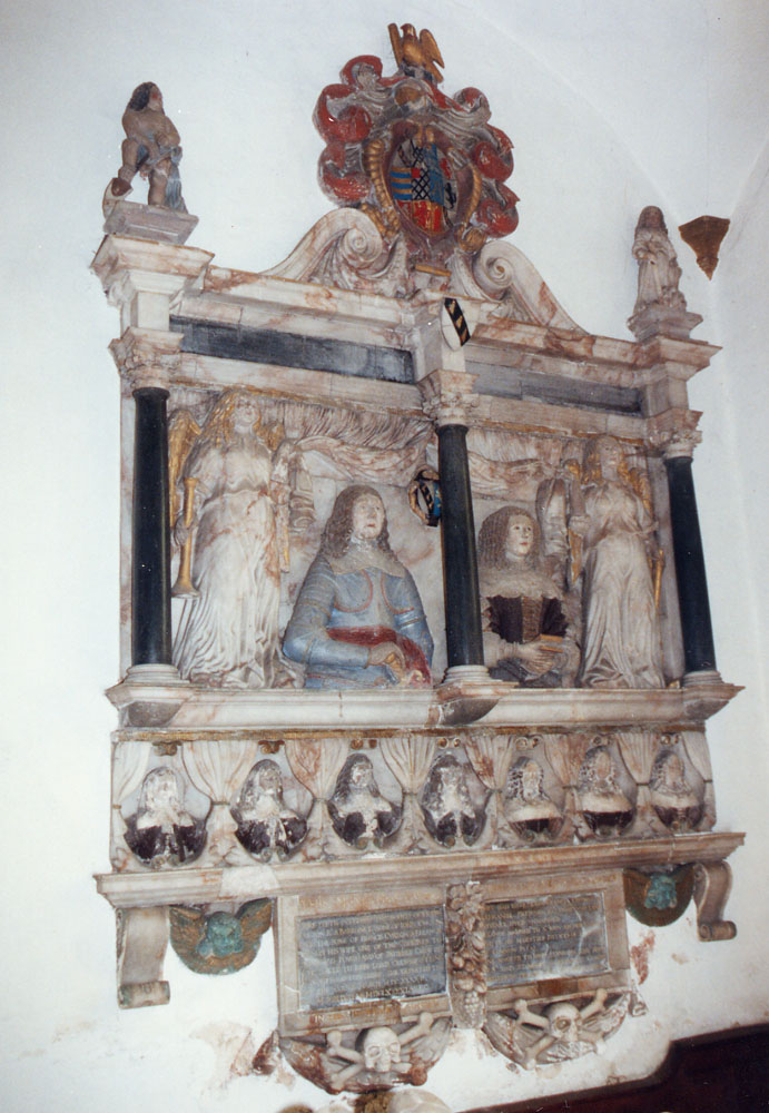 All Saints, Kedleston - Wall monument to Sir John Curzon, 1st Baronet (1598-1686)